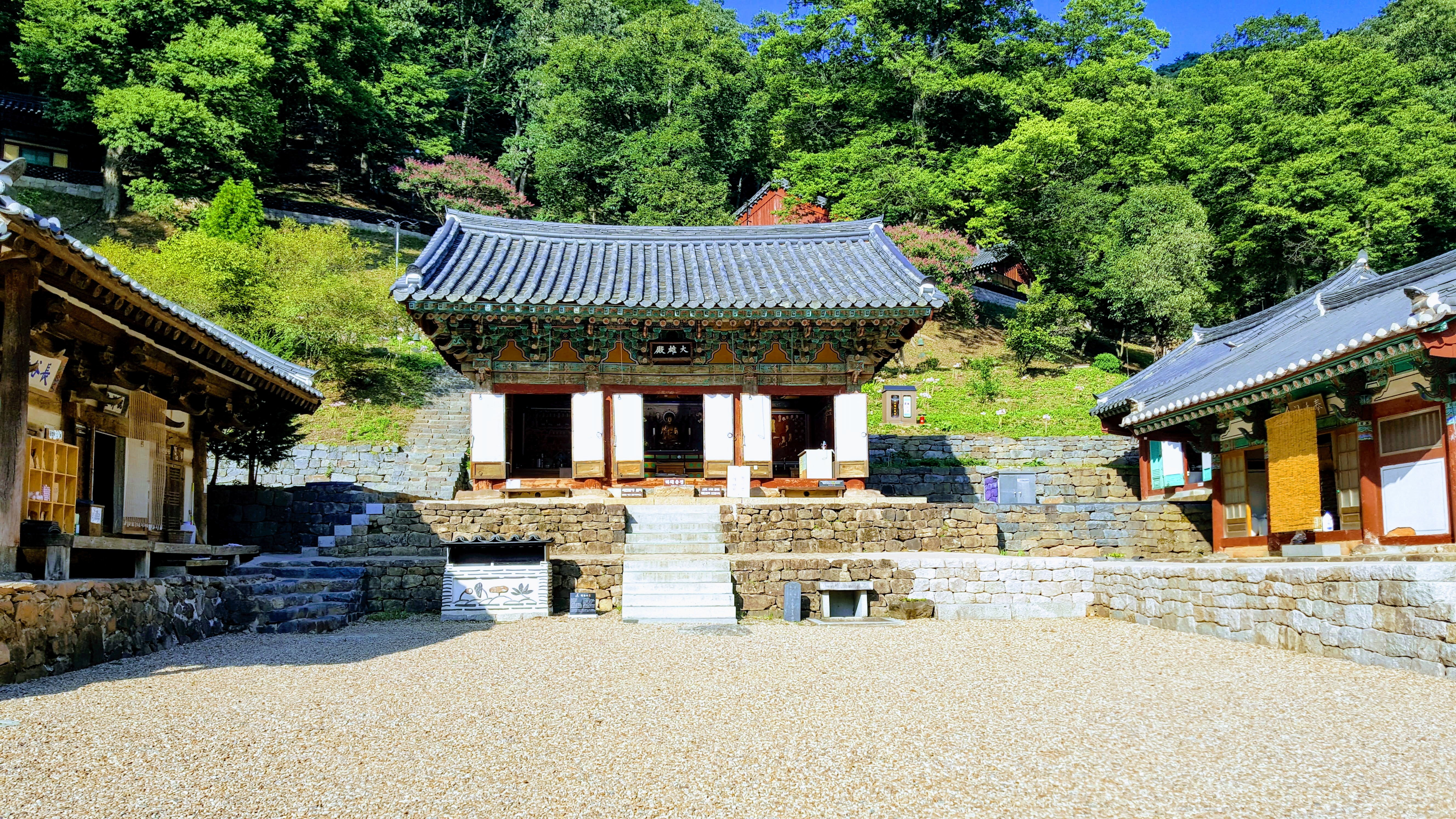 The master building of JangGok temple in Cheongyang, South Korea